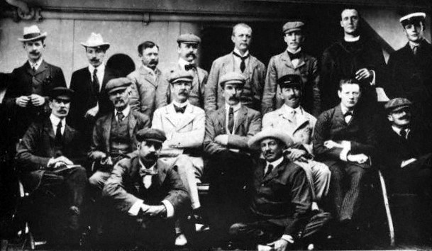 ABOARD THE S.S. DUNOTTAR CASTLE, JULY 1900. Standing L-R: Sir Byron Leighton, Claud Grenfel, Major Frederick Russell Burnham, Captain Gordon Forbes, Abe Bailey (his son John would marry Diana Churchill in 1932), next two unidentified, Lord Brooke. Seated L-R: Major Bobby White, Lord Downe, General Sir Henry Edward Colvile (a year later Churchill as MP would demand an inquiry over his dismissal from South Africa), Major Harry White (the first mayor of Bulawayo, Rhodesia), Major Joe Laycock, Sir Winston Churchill, Sir Charles Bentinck. Sitting L-R: unidentified, Col. Maurice Gifford (who had lost his arm in the Second Matabele War)